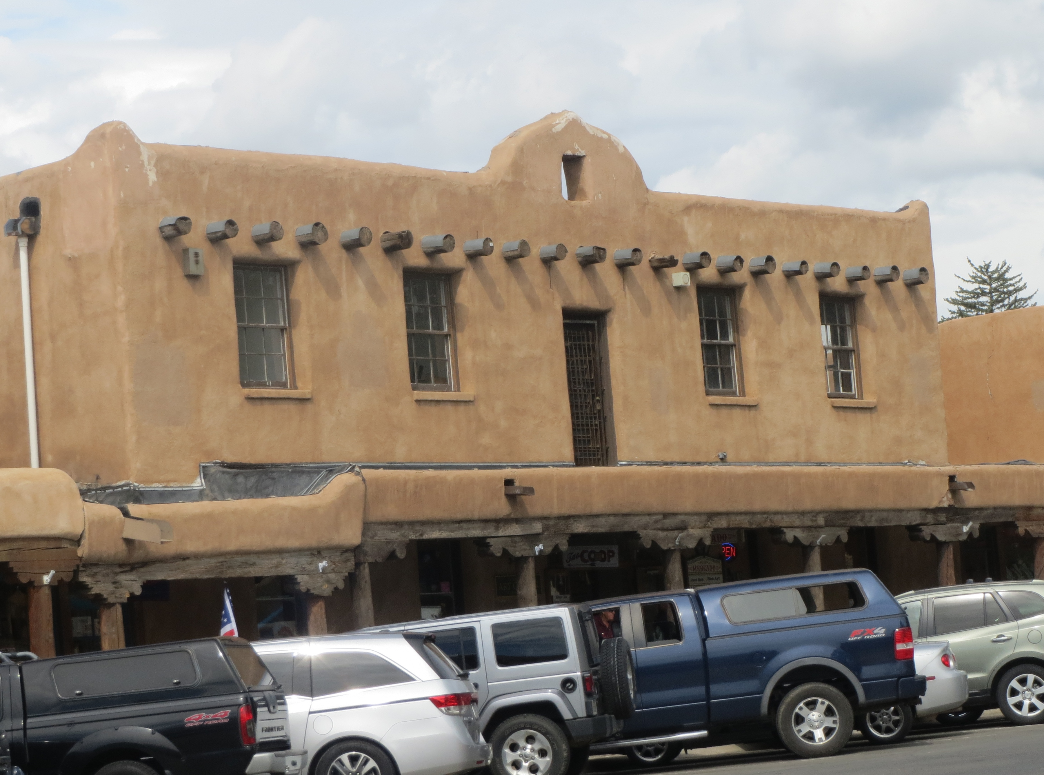 Former Taos County Courthouse at 121 N. Plaza